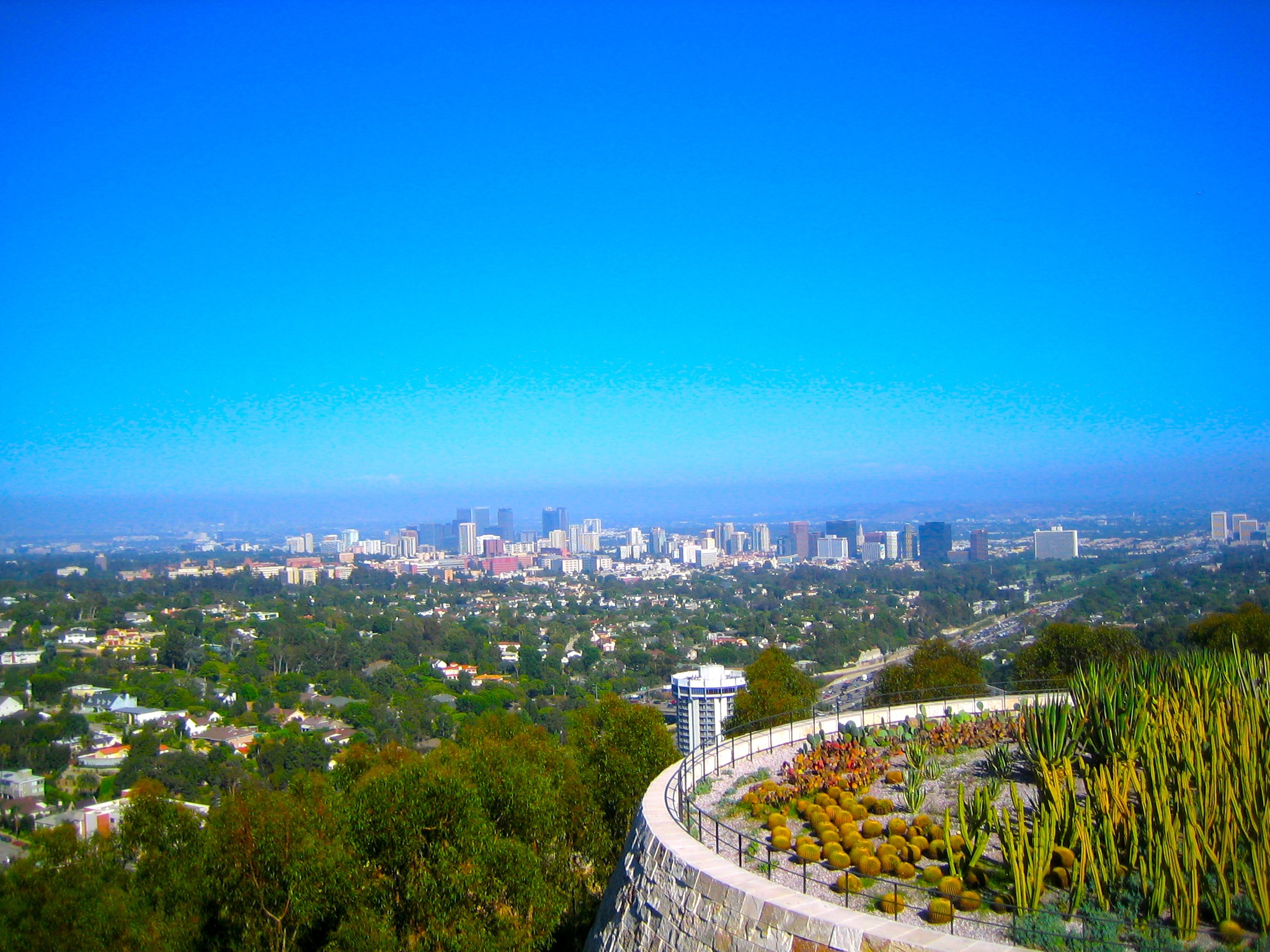 View of Westwood.